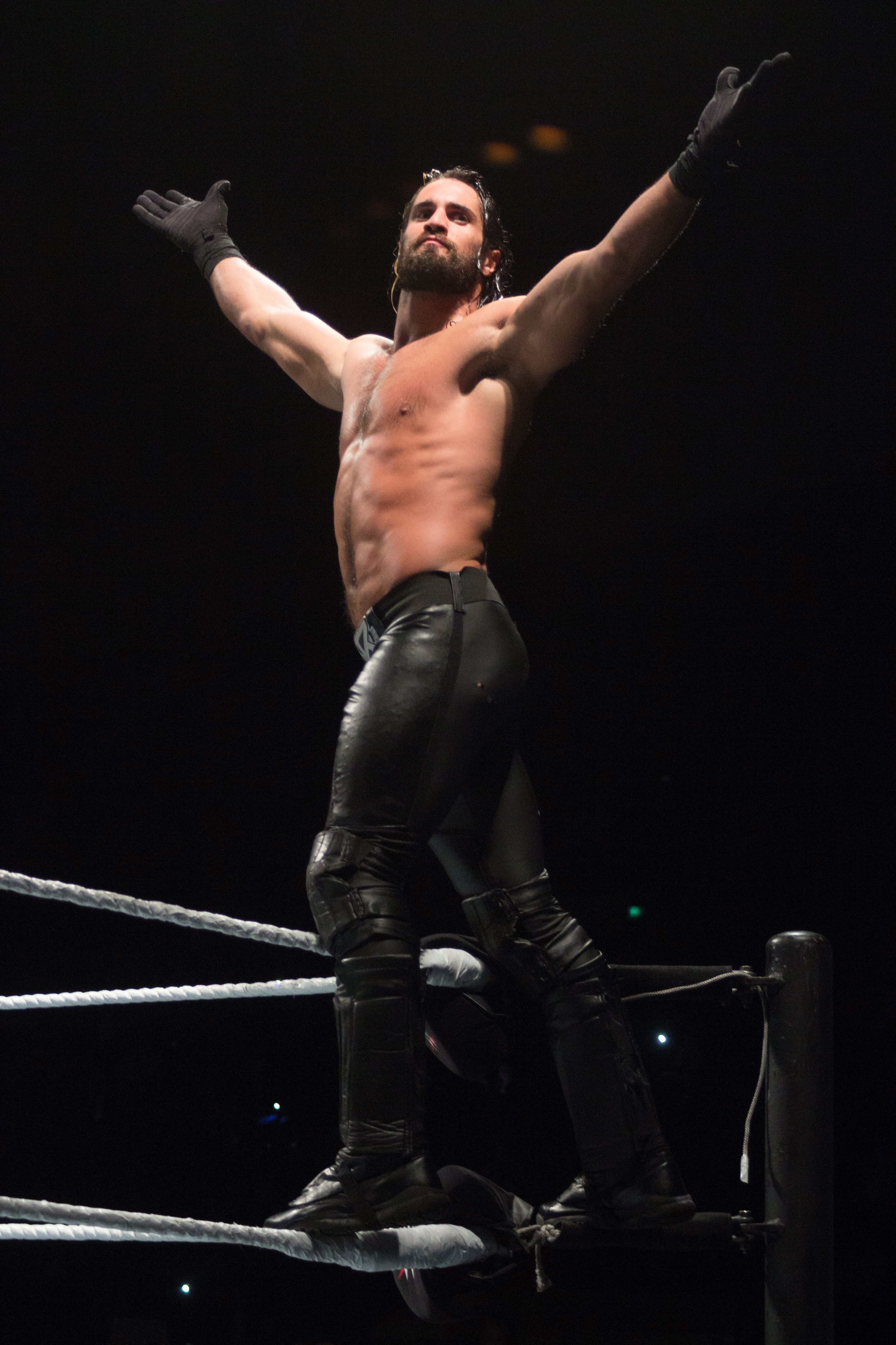 Seth Rollins in January 2015.